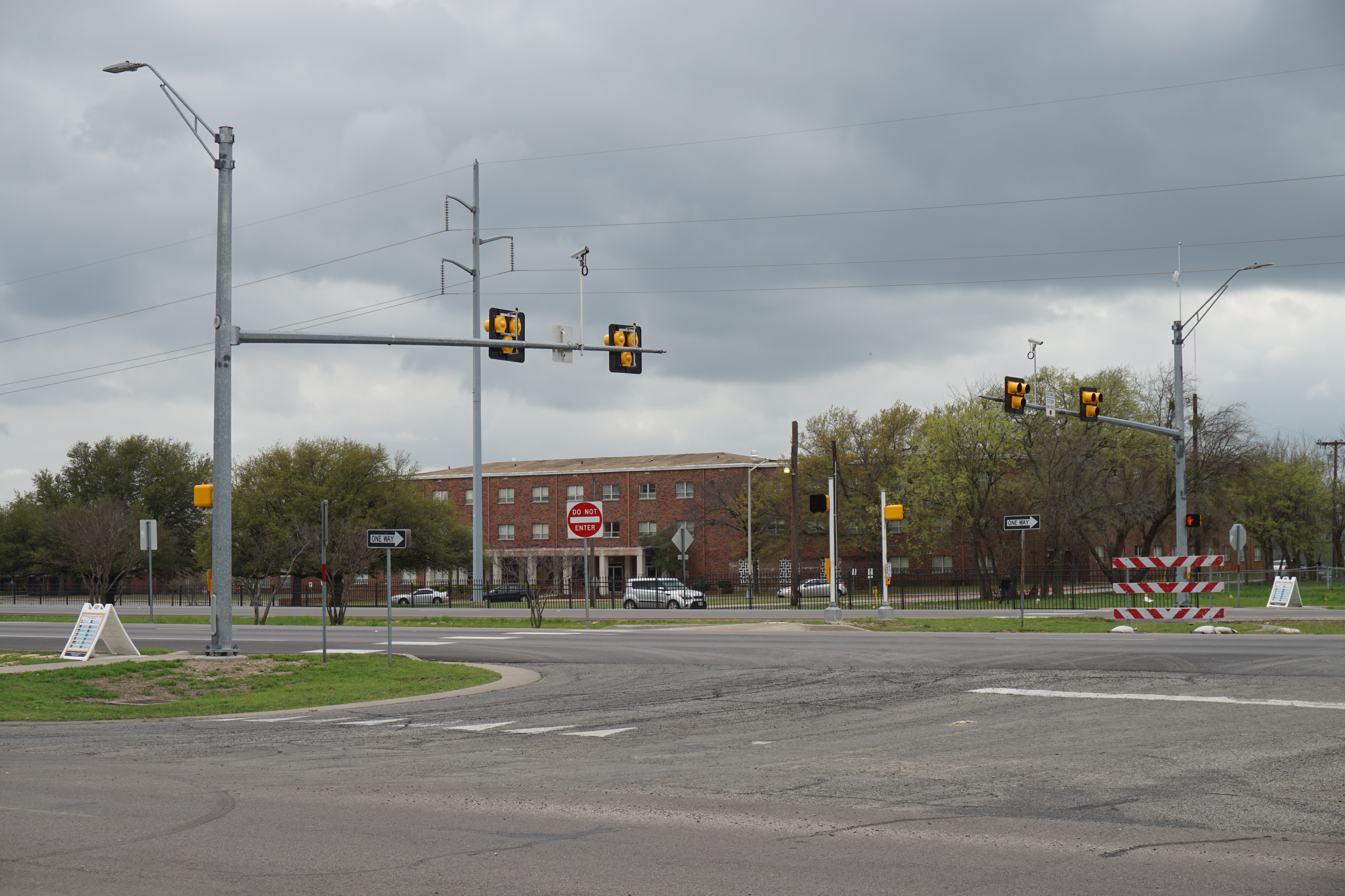 A HAWK beacon on the campus of Texas A&M University–Commerce in Commerce, Texas (United States).